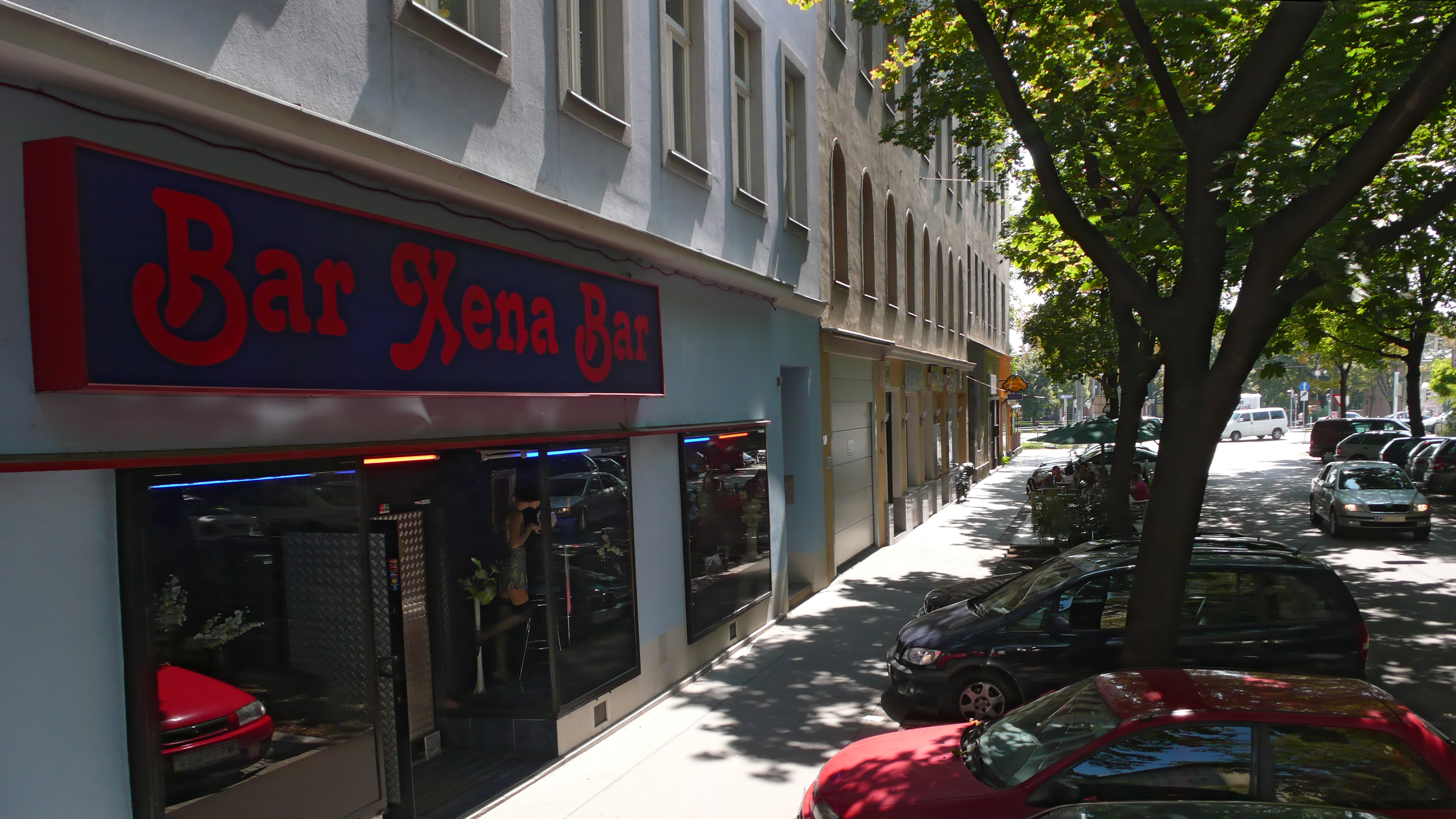 Vienna 2, Molkereistraße 5